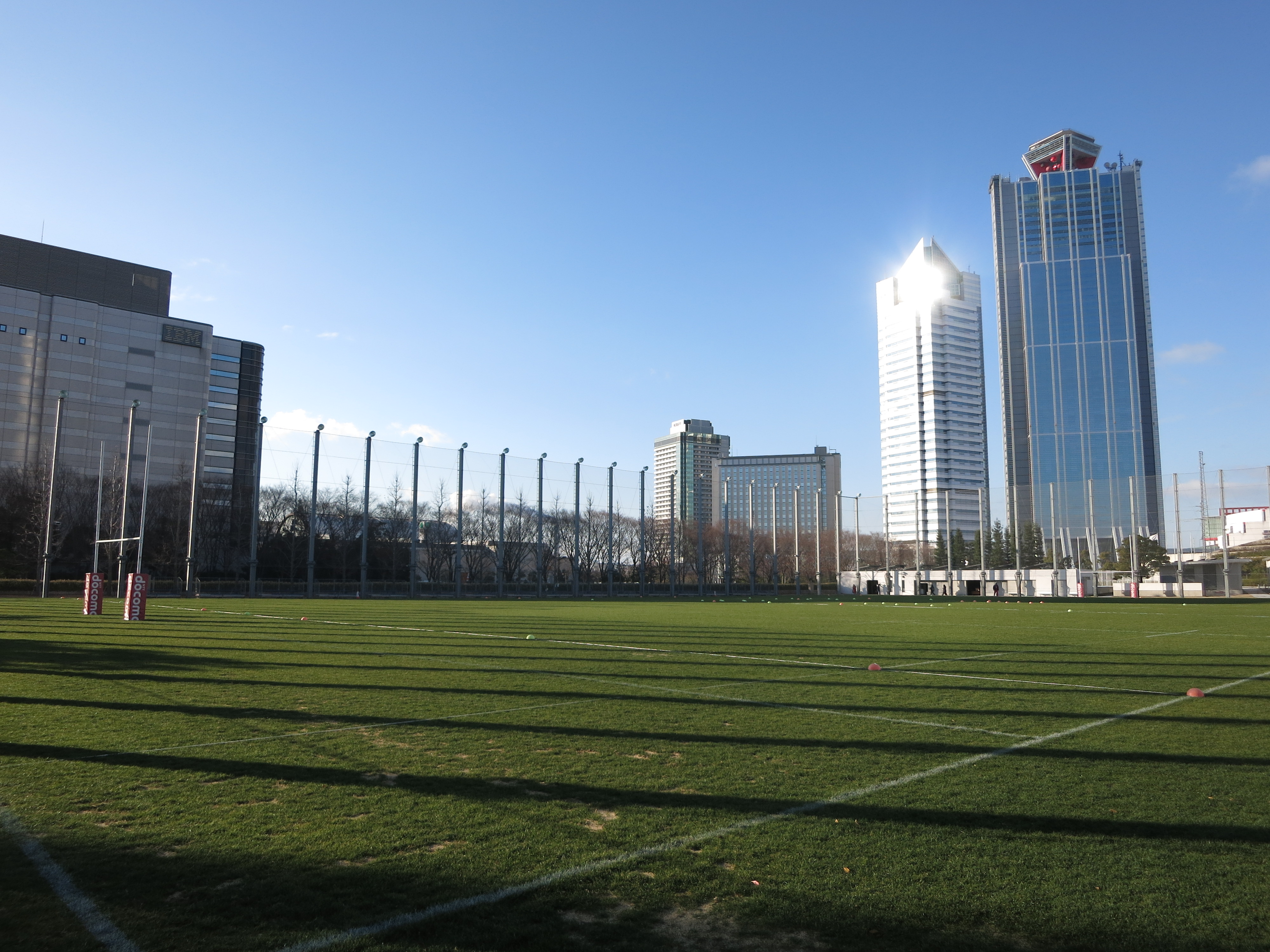 NTT docomo Nanko Ground